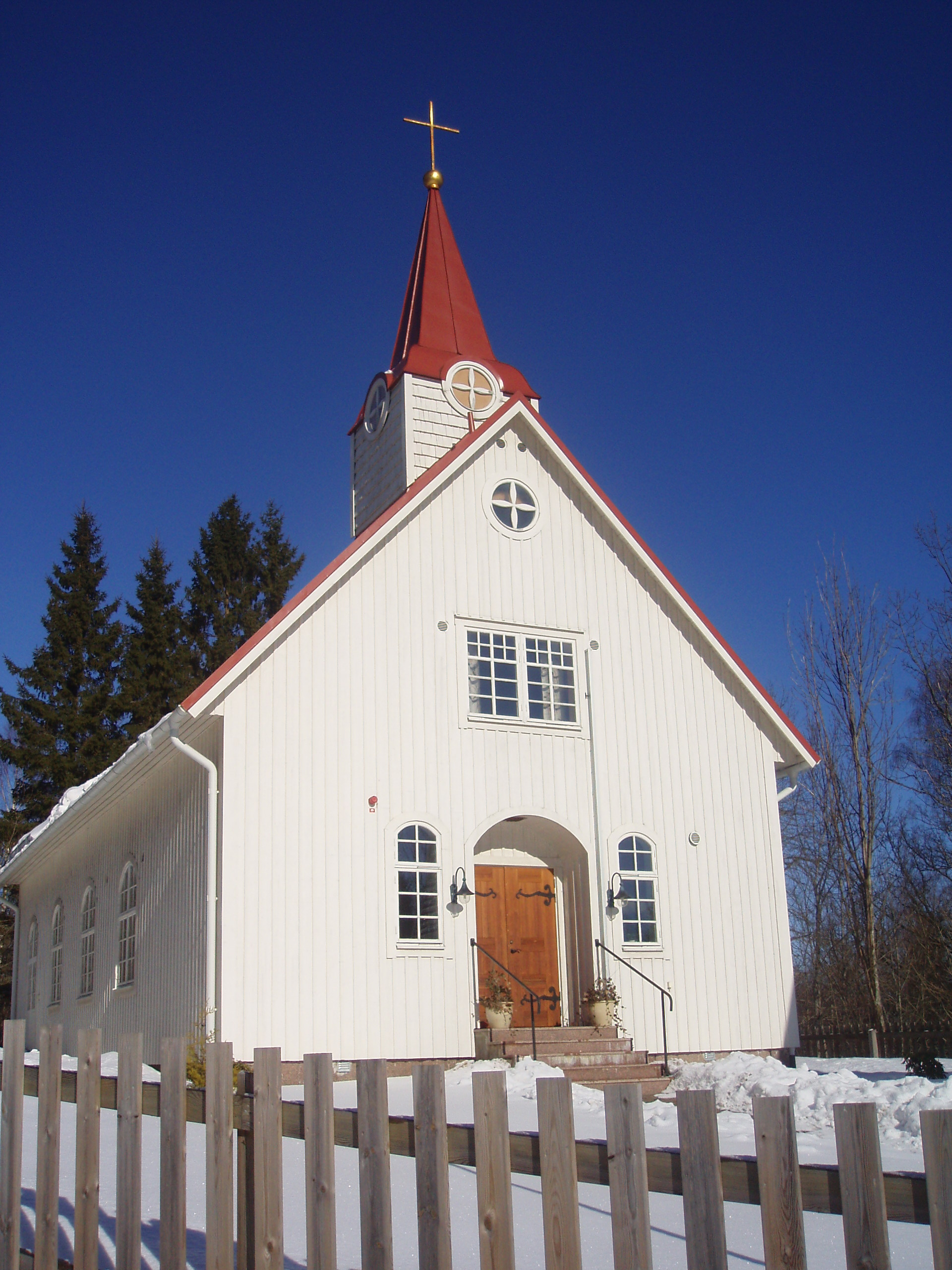 Kulla kapell outside Eksjö, Sweden, February 2006. The original church was burnt down, and the current one rebuilt in 2001.